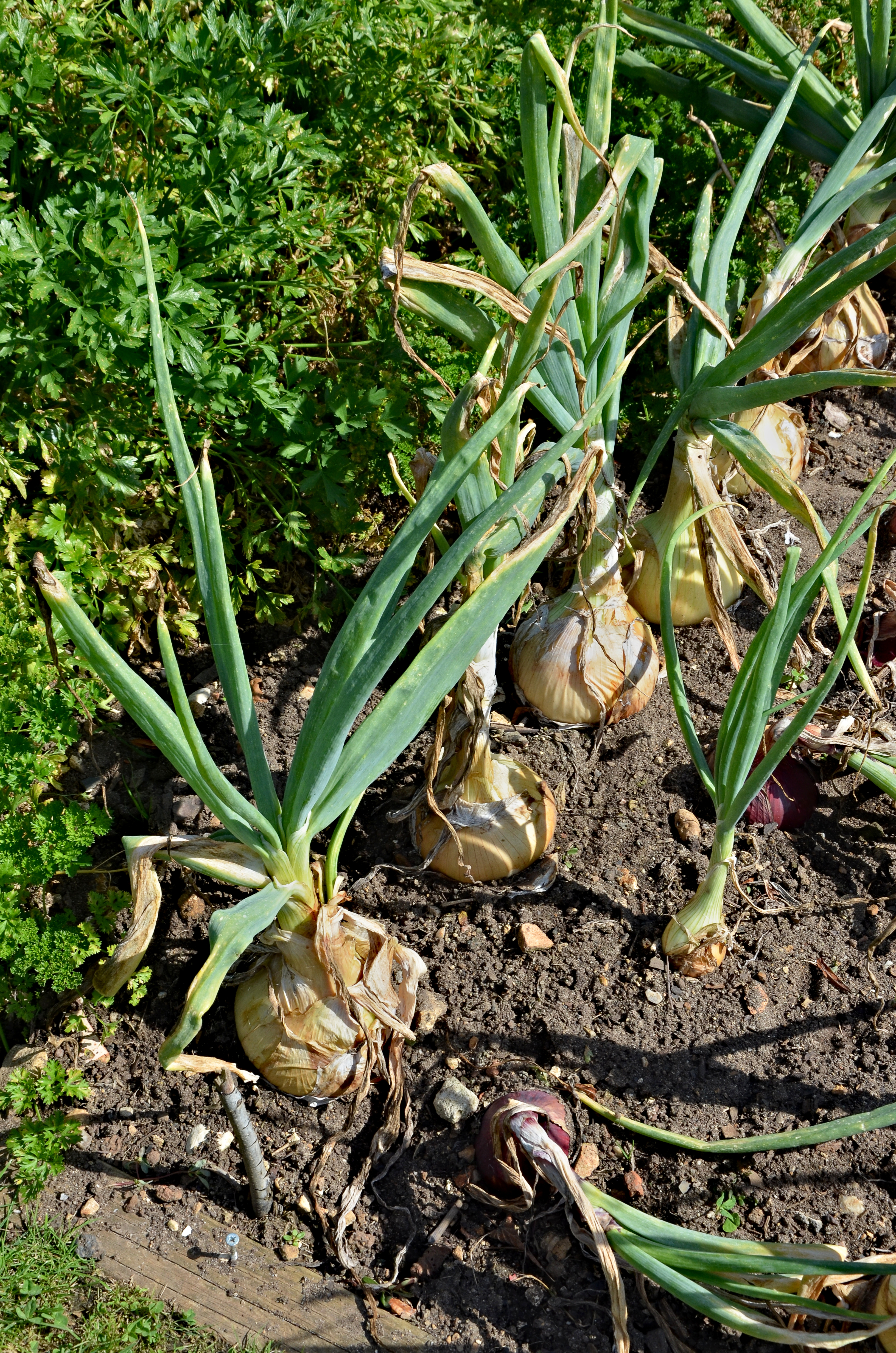 Common onions (Allium cepa) growing in a vegetable garden, France.